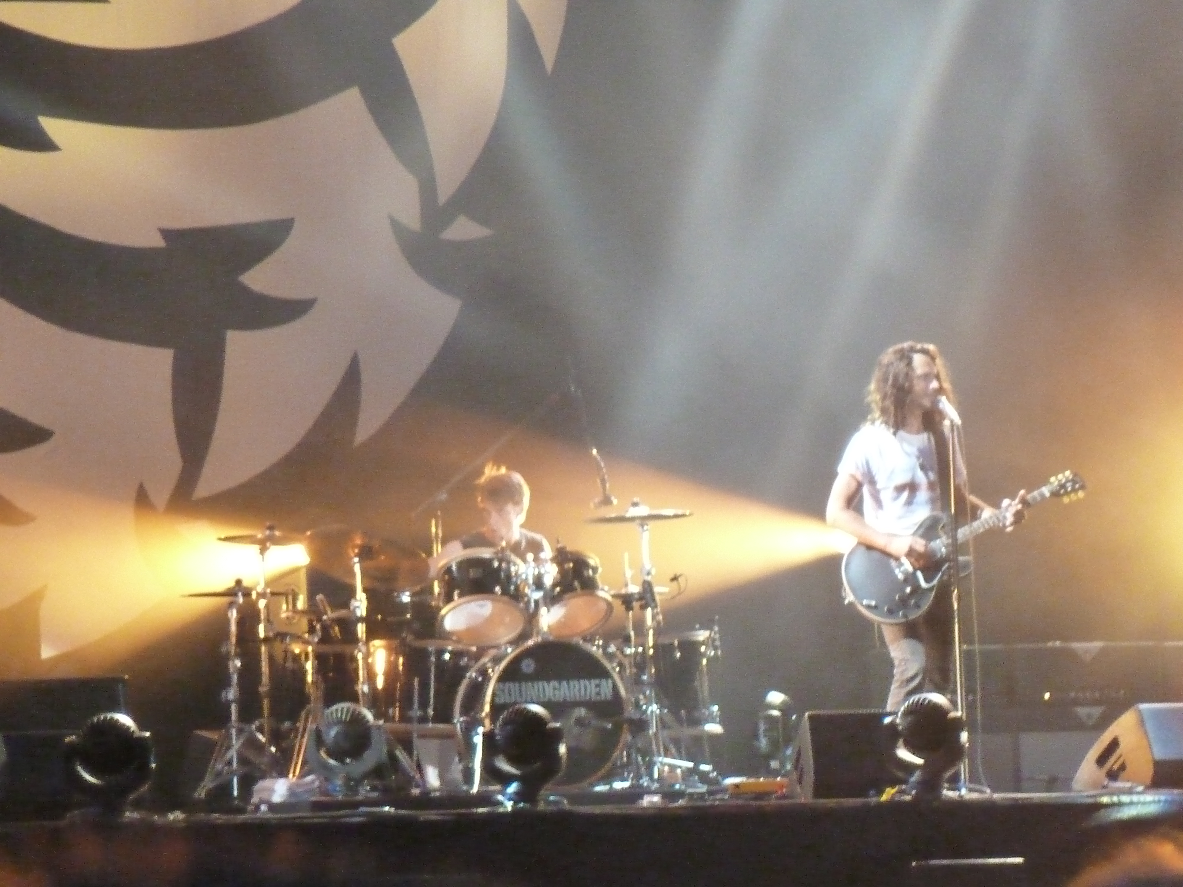 Soundgarden live at 2010